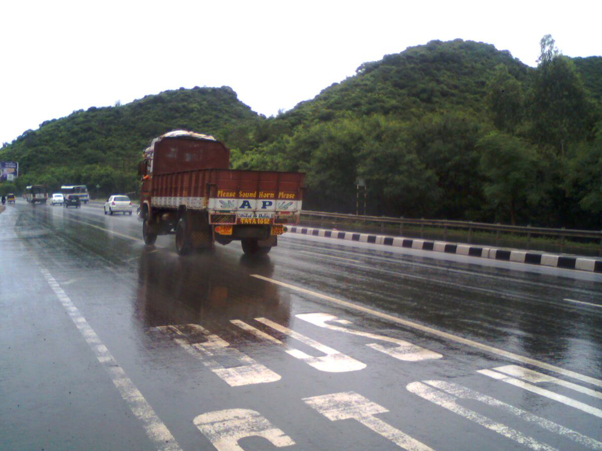 NH 5 (New NH 16) on a rainy day at Zoo Park in Visakhapatnam